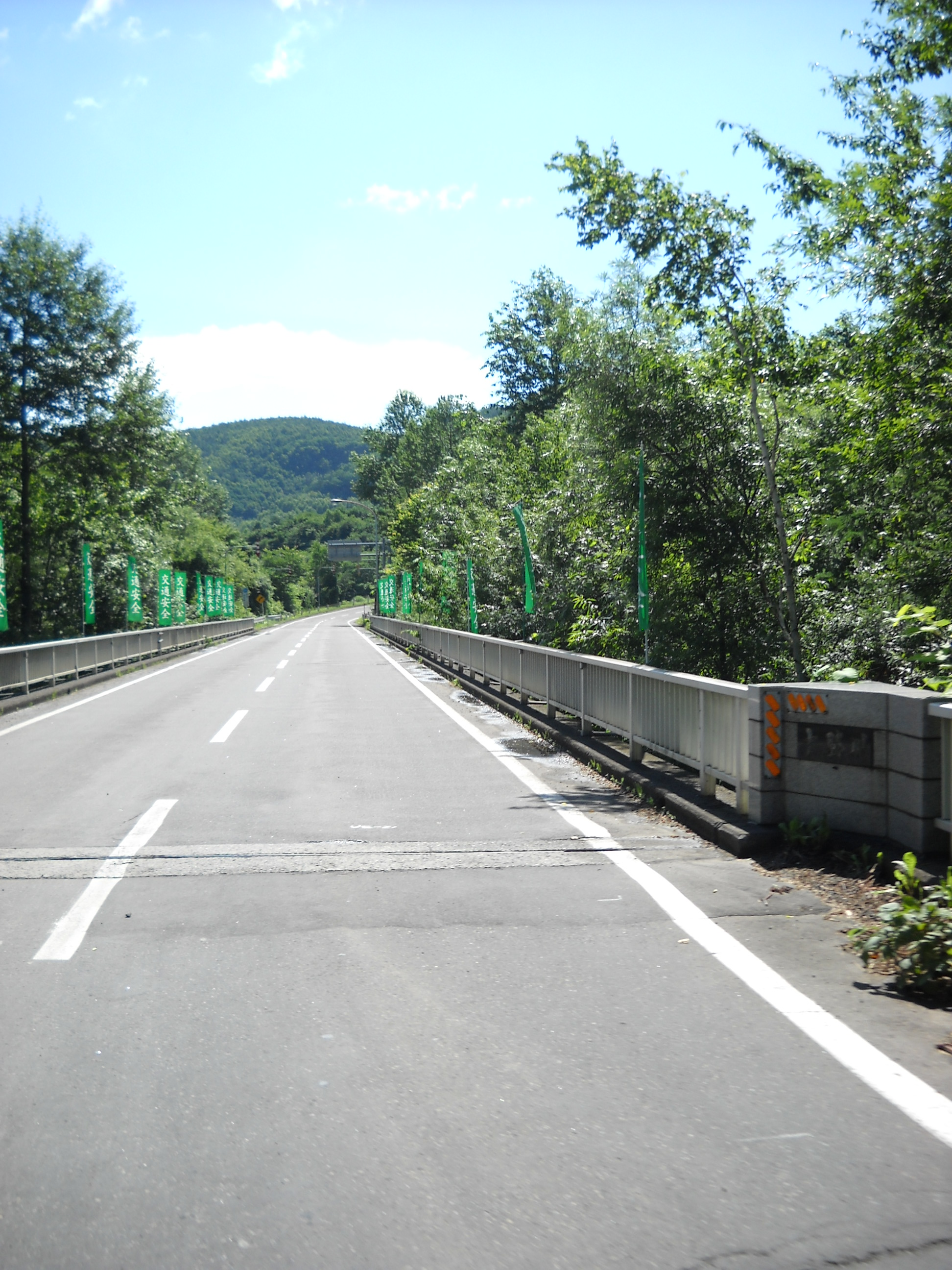 Hokkaido prefectural road route593, Shintoku, Hokkaido, Japan